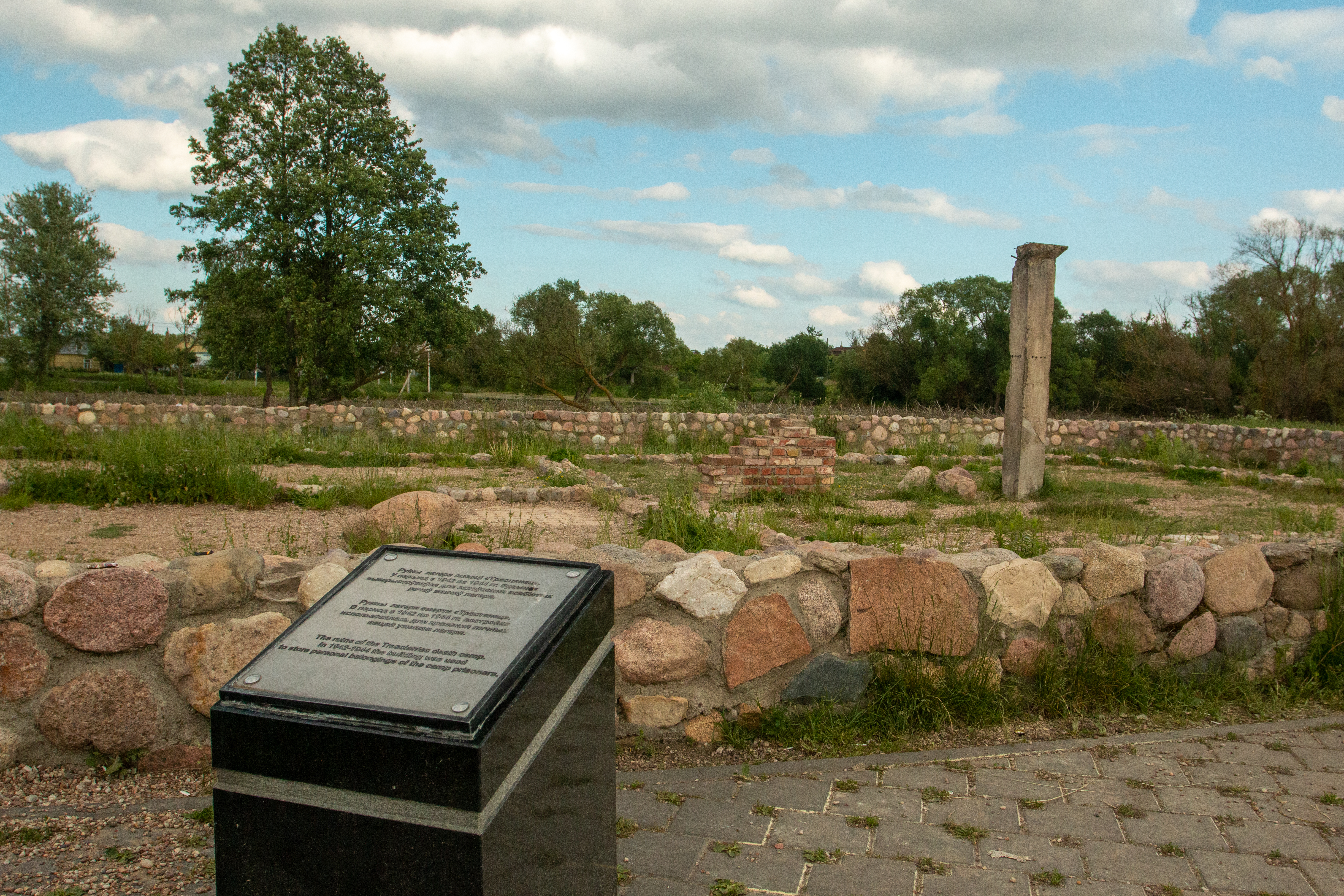 Ruins of the building that housed personal belongings of prisoners of Maly Trastiniec concentration camp 1942-1944